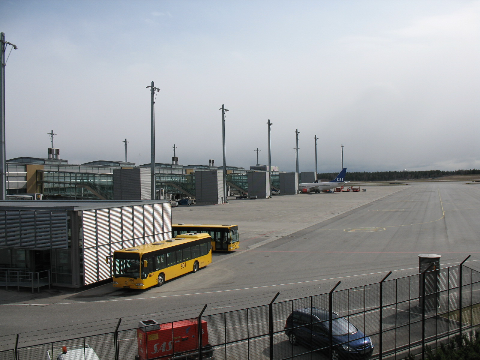 Passenger terminal and apron at Oslo Airport.